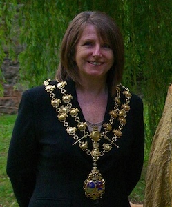 The Mayor at Scenes from the induction service at St Mary's Church, Monmouth, for Rev. David McGladdery, new vicar of Monmouth, Wales, UK, Saturday 29th August 2009. The Bishop of Monmouth Rt. Rev. Dominic Walker and the Archdeacon of Monmouth, the Ven. Richard Pain, presided. August 2009